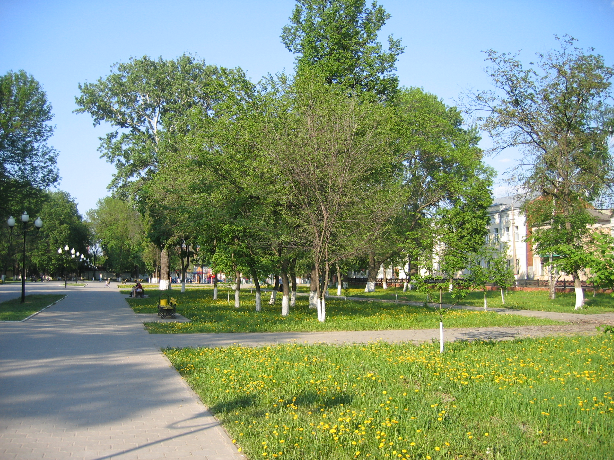 Kremlin Garden in Tula